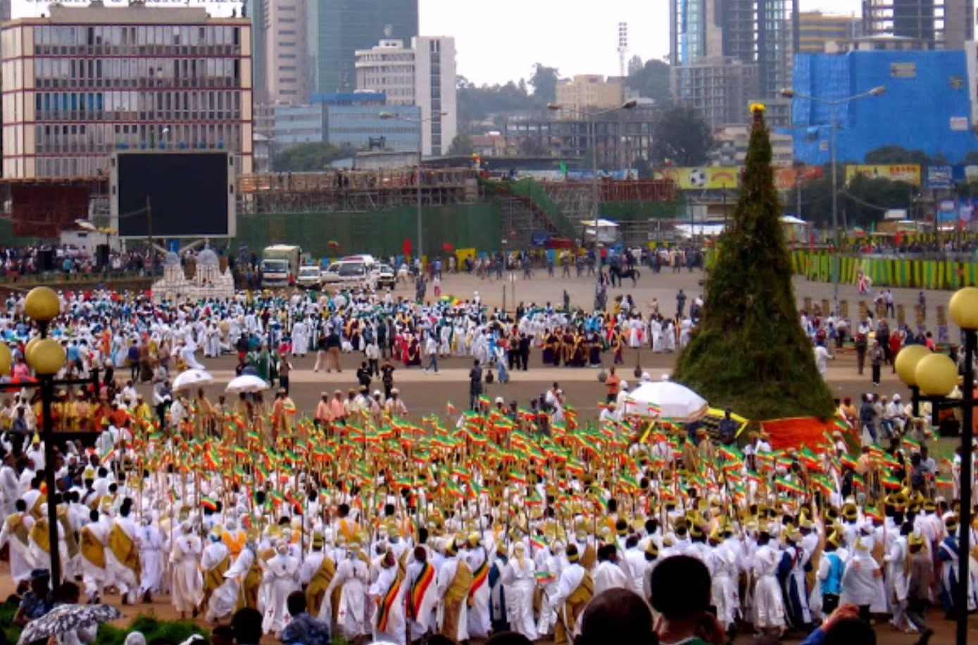 Meskel celebrations commemorate the discovery of the cross on which Jesus Christ was crucified by St. Helena, mother of Constantine the Great. According to legend, in the year 326 AD Queen Helena went on a search for the true cross and was unsuccessful until she received help through a dream. This is an image of "African people at work" from Ethiopia